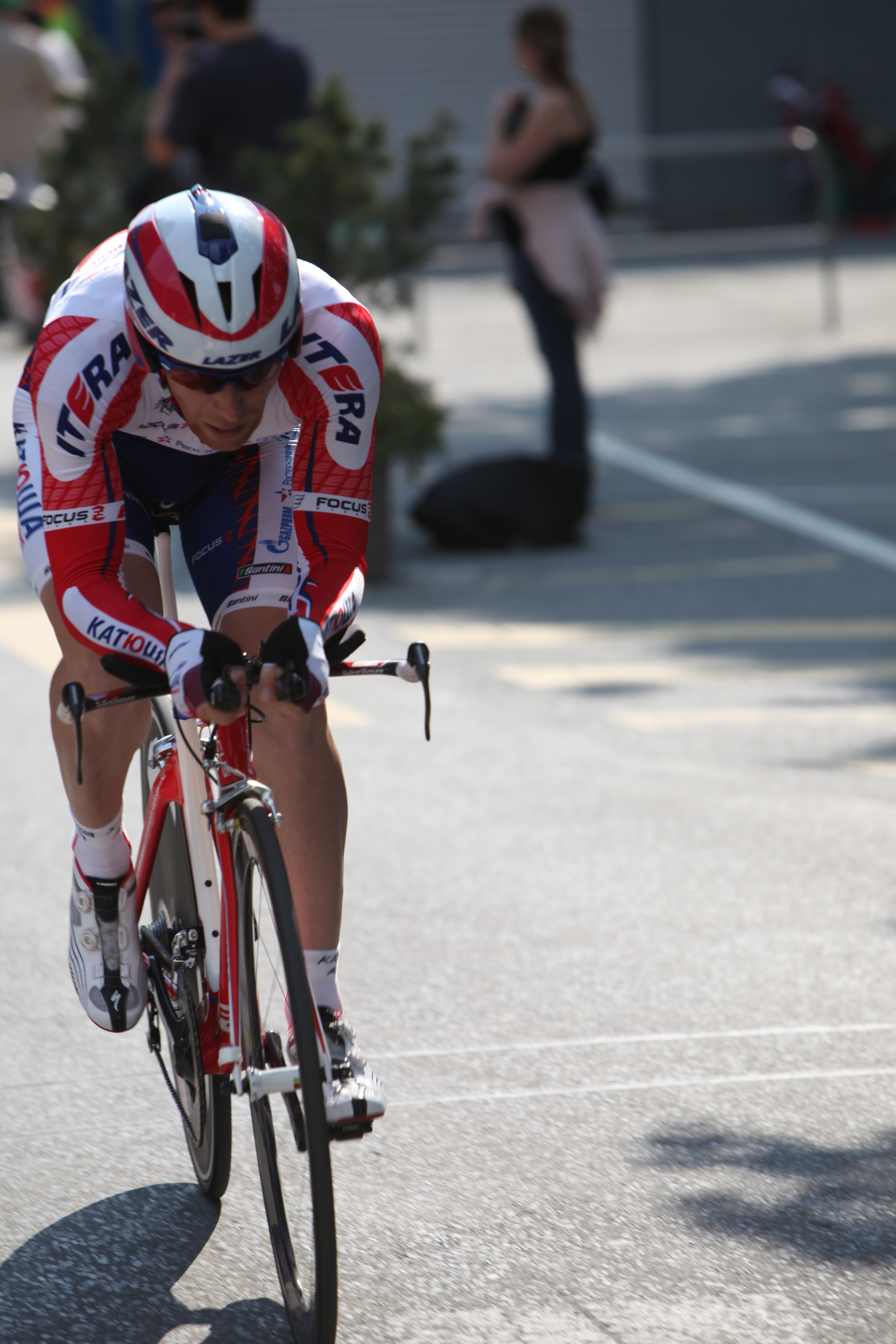 Pavel Brutt at the prologue of the Tour de Romandie 2011